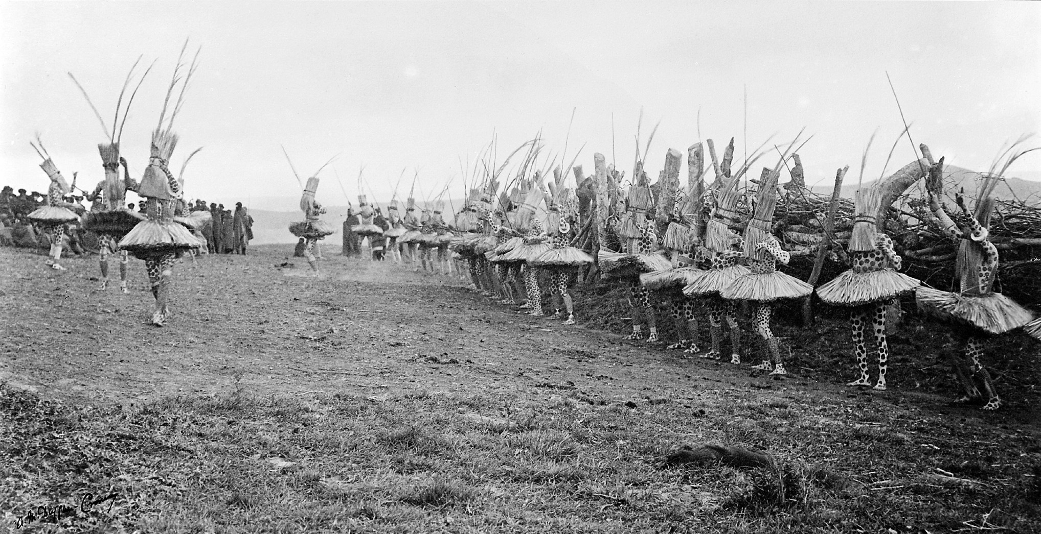 Bomvana Abakweta Dancing Welcome Images Keywords: indigenous medicine: culture; non-european medicine; Ethnography